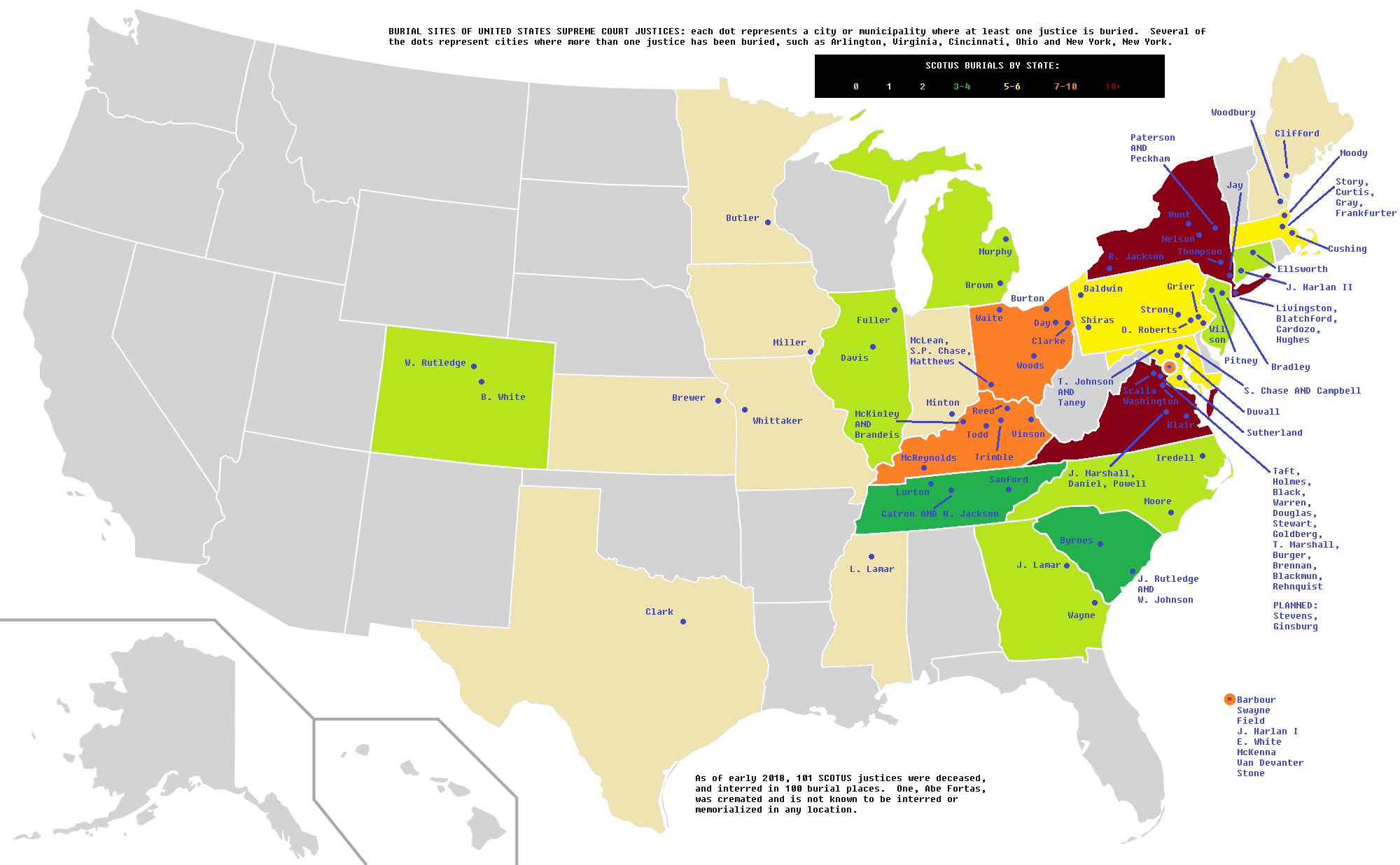 A map of the United States, showing locations of burial sites of the justices of the Supreme Court of the United States.